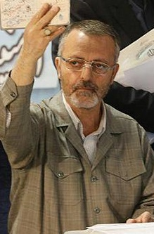 Masoud Zaribafan